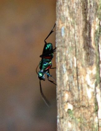 An emerald cockroach wasp (Ampulex spp.)